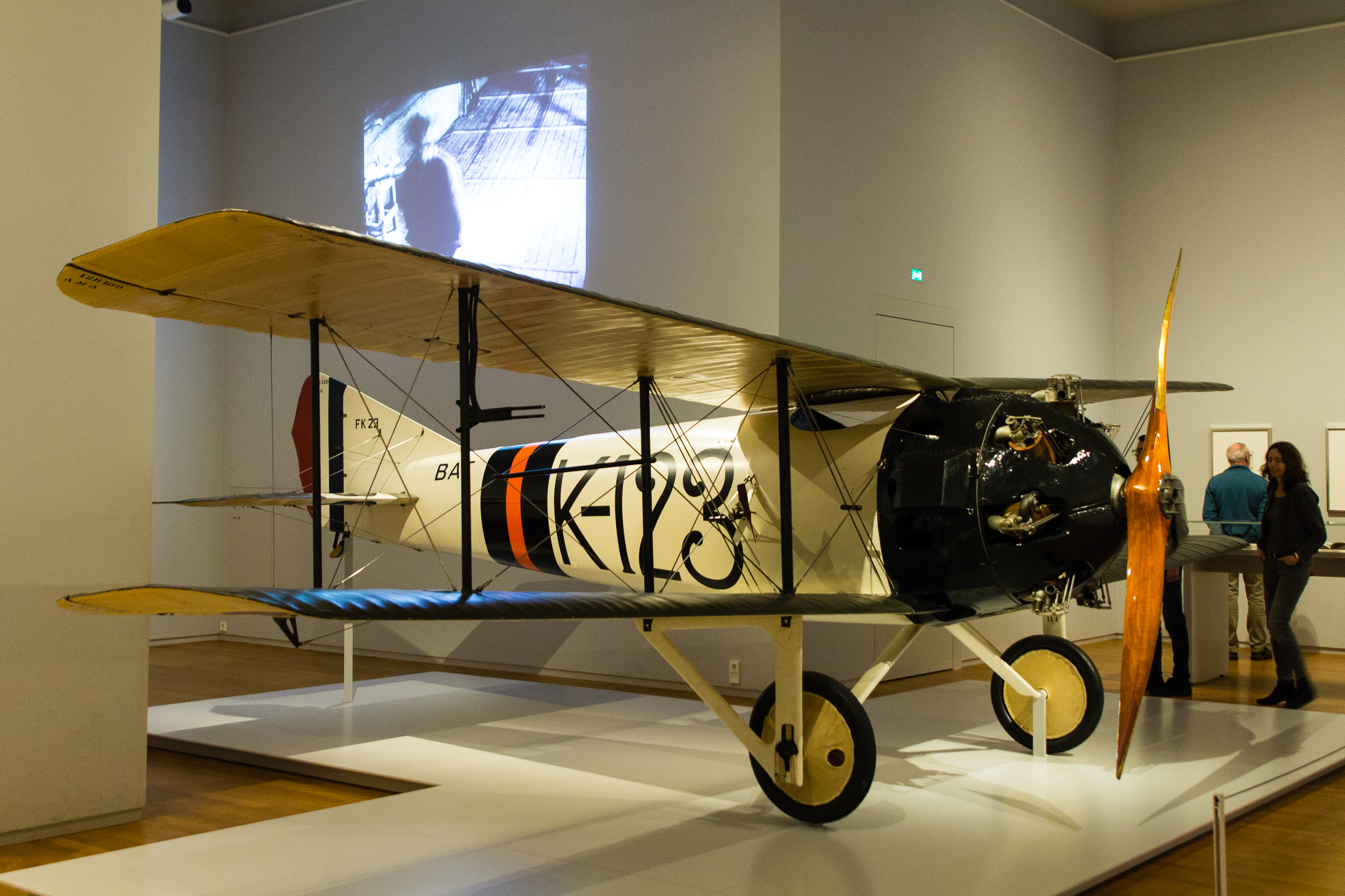 British Aerial Transport F.K.23 'Bantam' at the Rijksmuseum